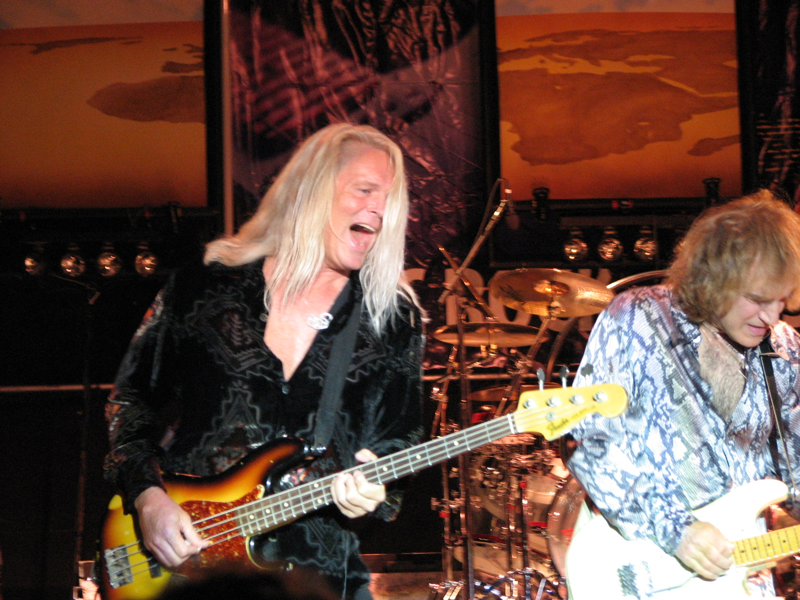 Bruce Hall and Dave Amato of REO Speedwagon, 2007.